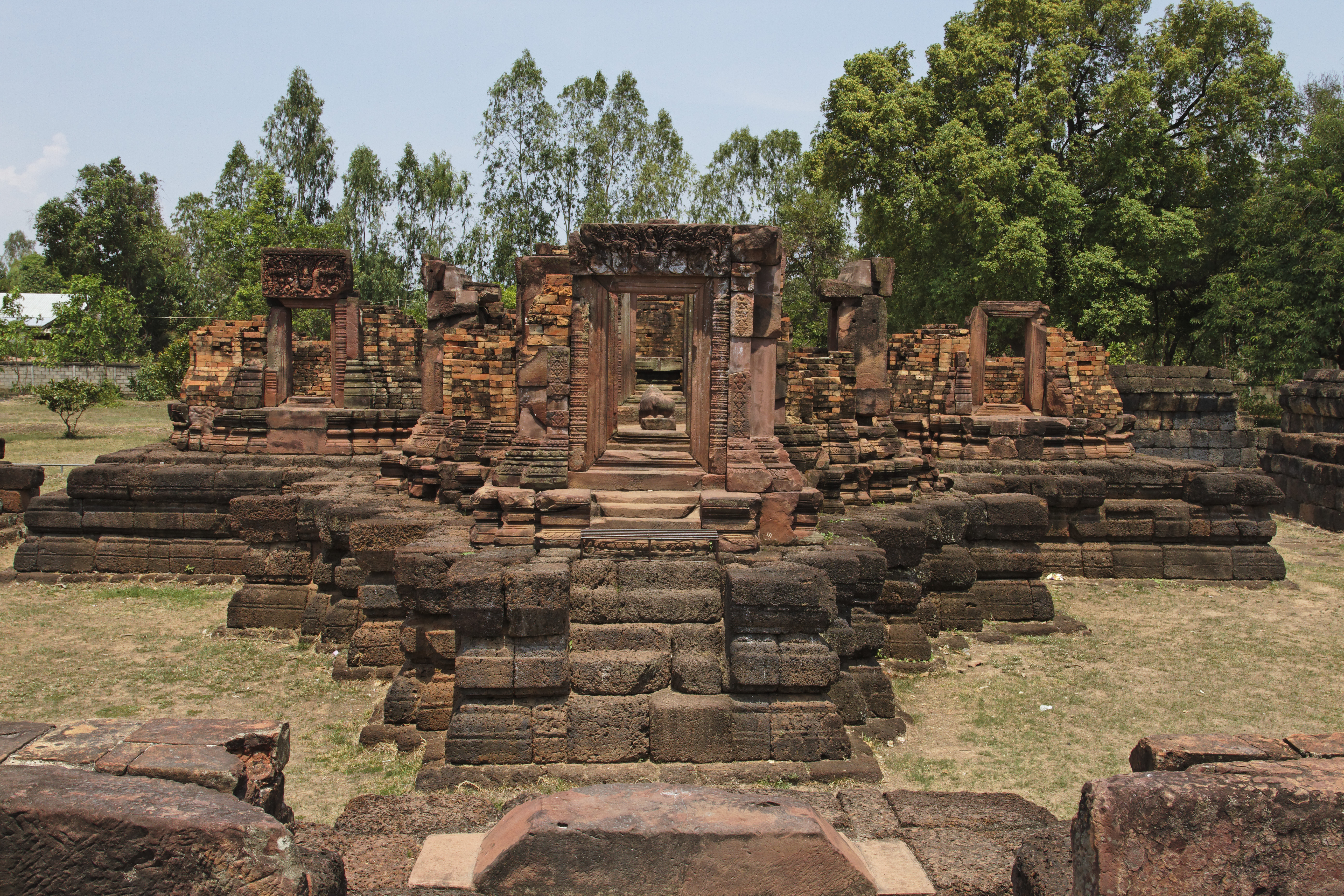 Ku Ka Sing is a khmer temple ruin located in the Province of Roi Et, Thailand